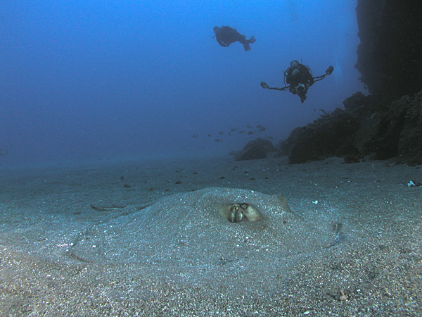 Divers and Southern Stringray next to Diamond Rock, Saba, Netherlands Antilles. Image taken by Clark Anderson/Aquaimages.